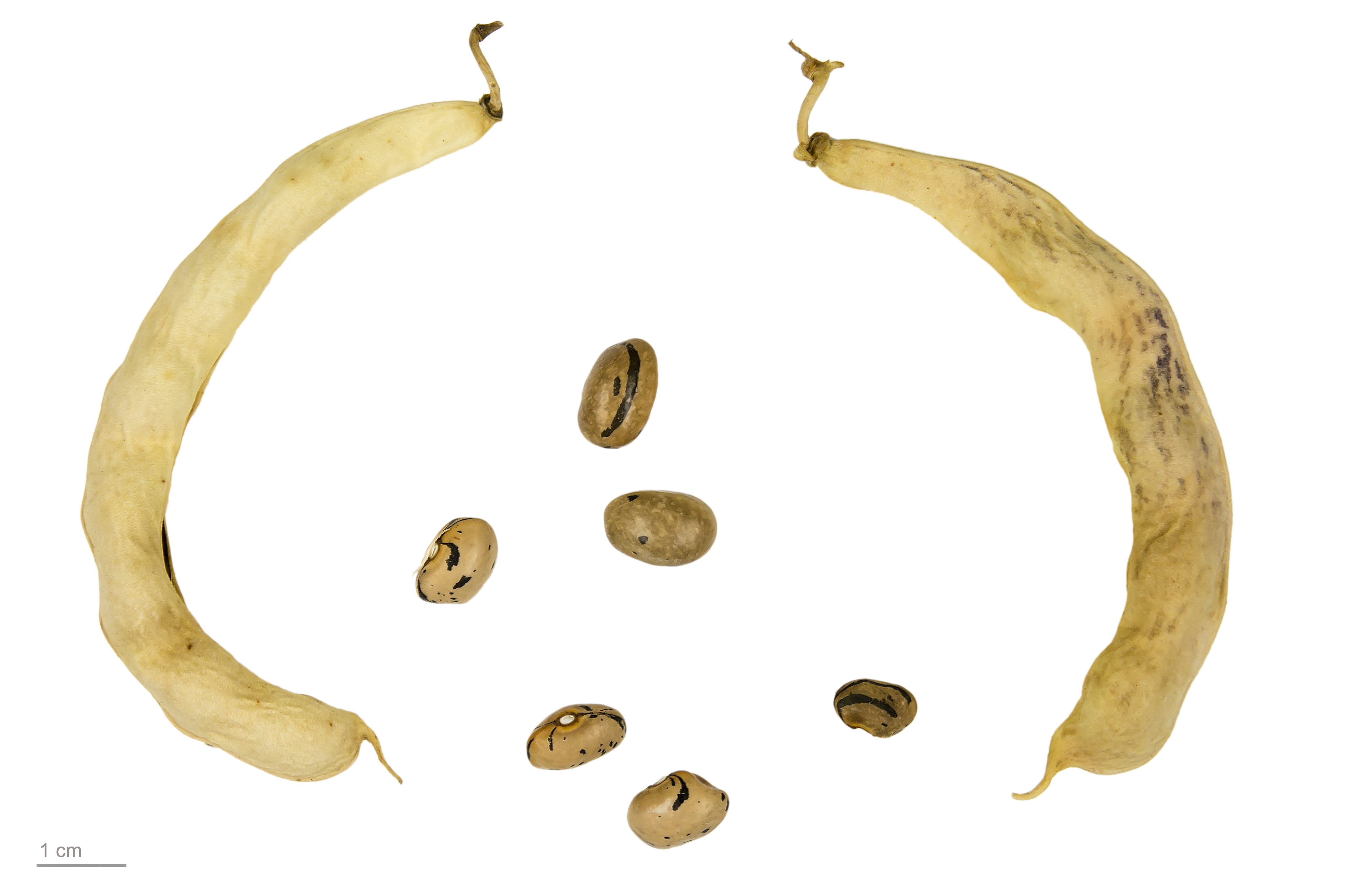 Phaseolus vulgaris Marie-Louise, common bean, seeds